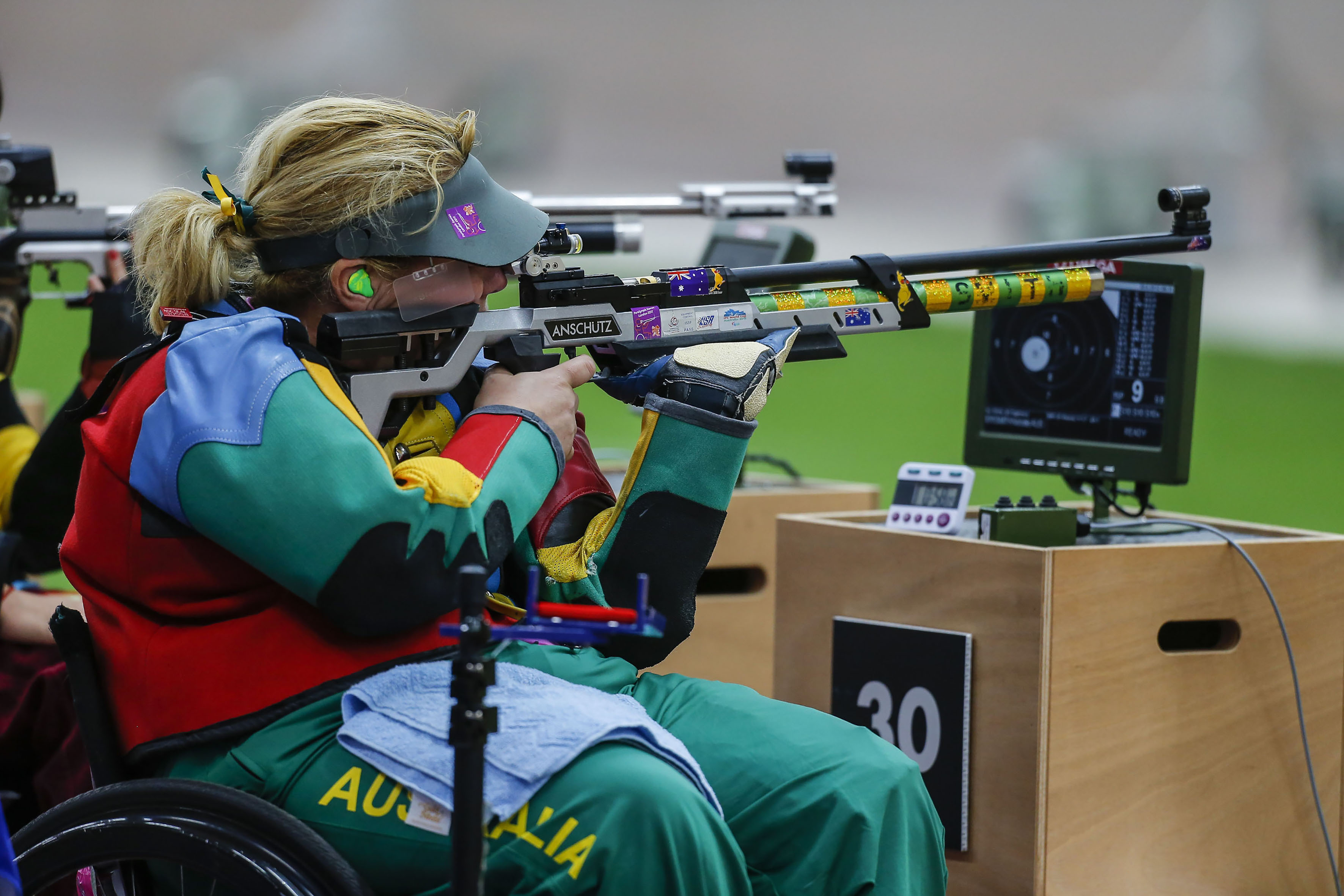 Photograph of Australian Paralympic team member Natalie Smith at the 2012 Summer Paralympic Games in London